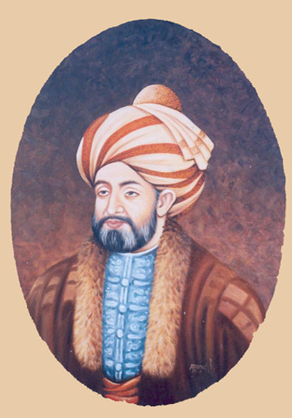 A contemporary painting of Ahmad Shah Durrani, founder of the modern state of Afghanistan in 1747 and ruler of the Durrani Empire. It is based on an early Afghan drawing by ’Abd al-Ghafur Breshna.[1]